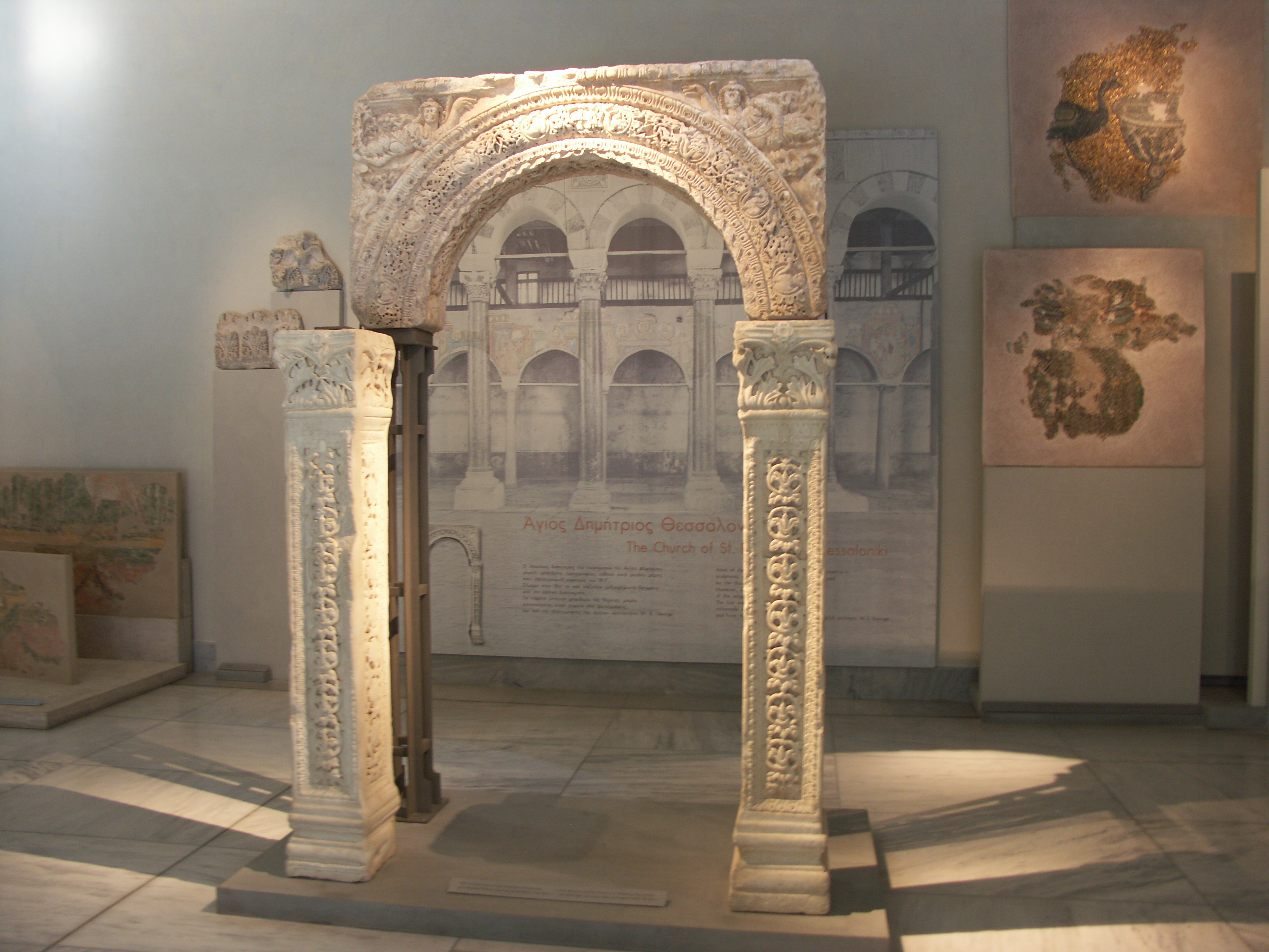 Arch and piers from the Church of St Demetrius, Thessaloniki, with relief Nikes and zoomorphic and vegetal motifs, 5th-6th c.